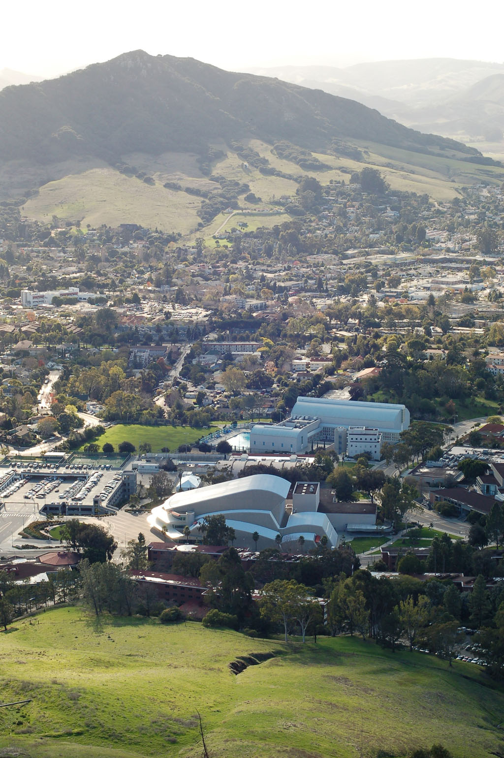 Cal Poly Below